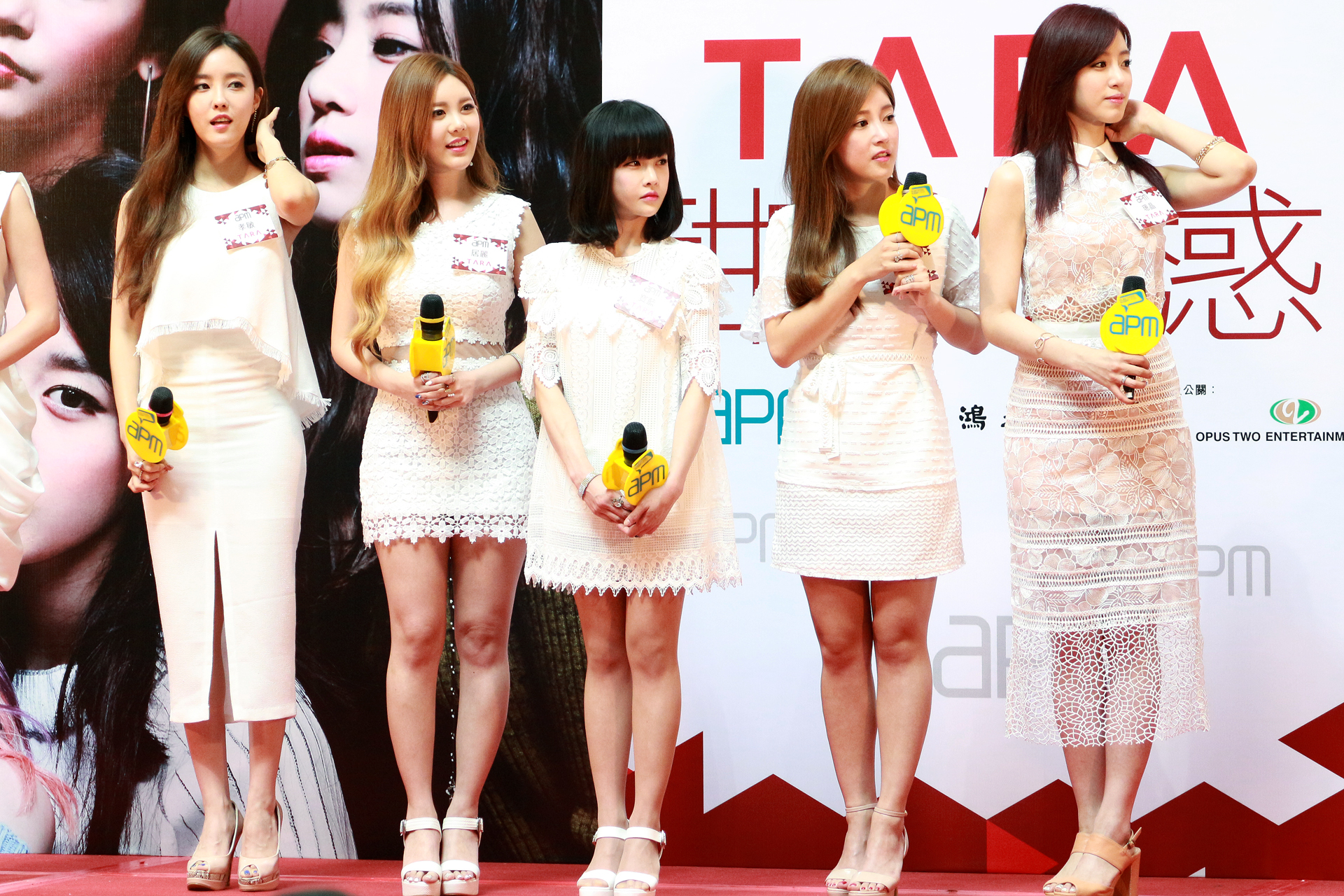 150607 T-ara Web Drama Press Conference in Hong Kong